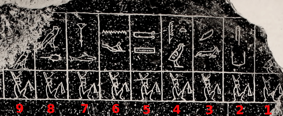 Palermo Stone; closeup of the predynastic series of - most likely mythical/fictitious - ancient Egyptian rulers: 1) [name destroyed] 2) Hsekiu/Seka 3) Khayu 4) Tiu/Teyew 5) Thesh/Tjesh 6) Neheb 7) Wazner/Wadjenedj/Wenegbu 8) Mekh 9) [name destroyed]